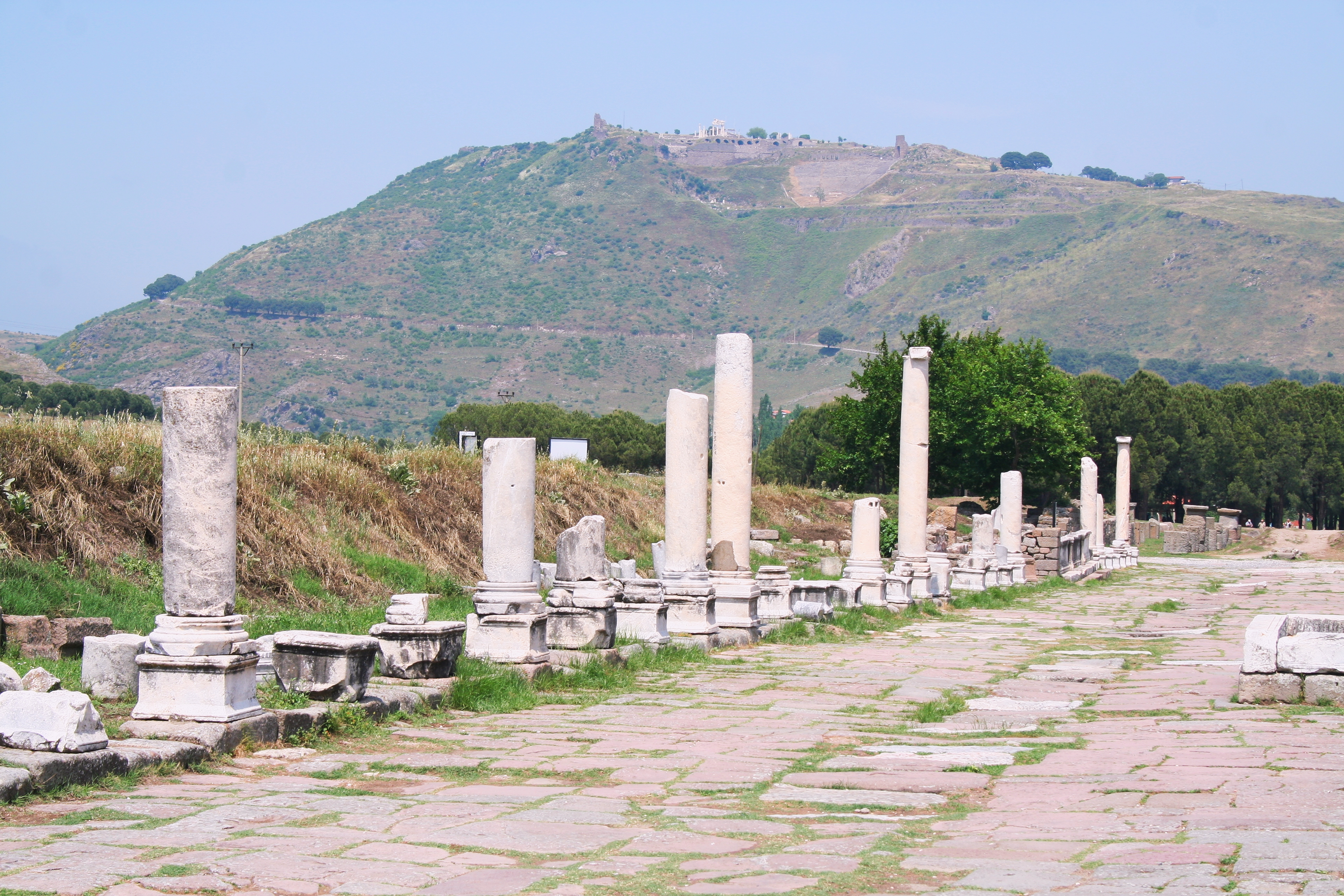 Pergamon Acropolis from Sanctuary of Asclepios